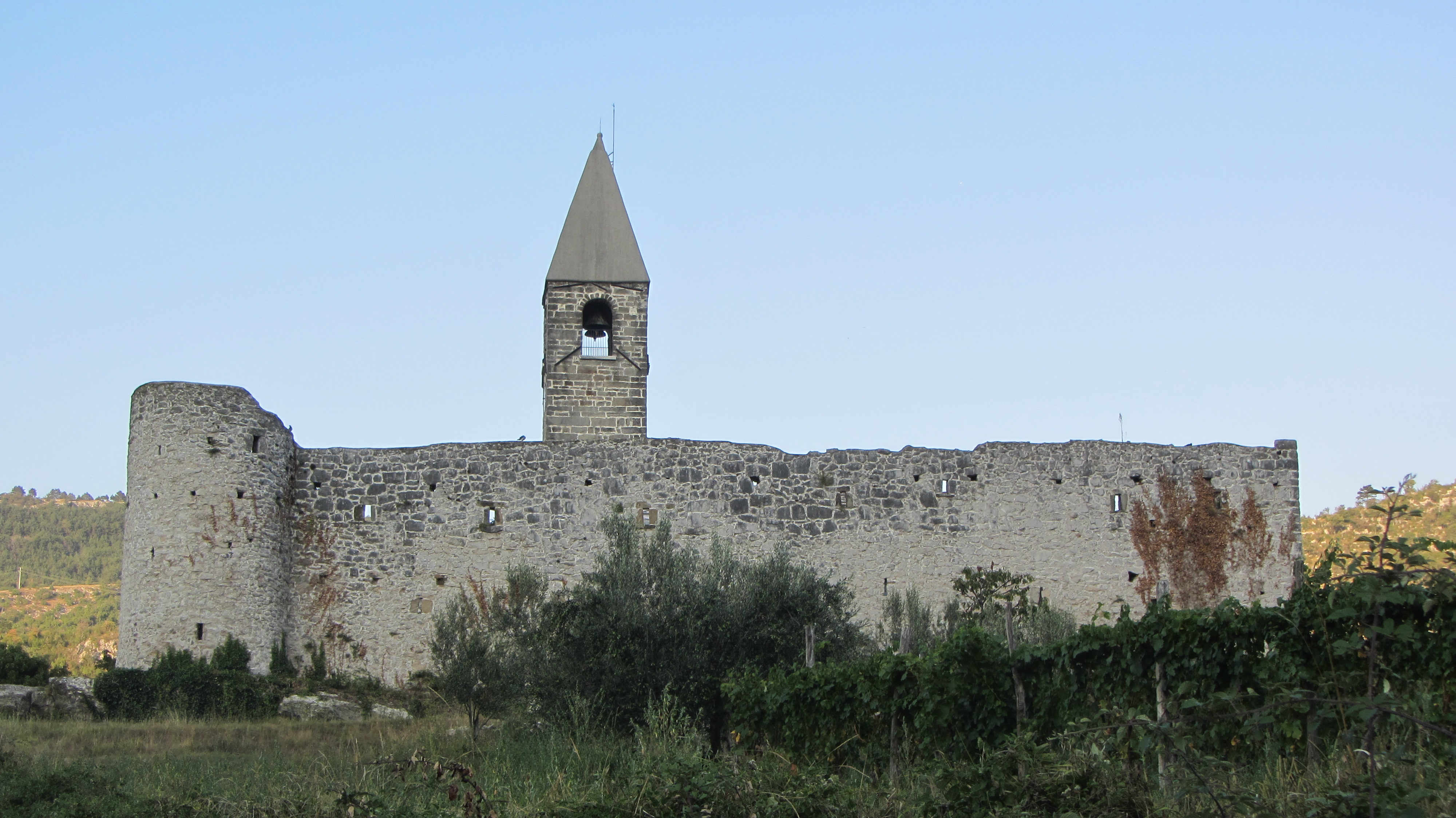 Fortified church